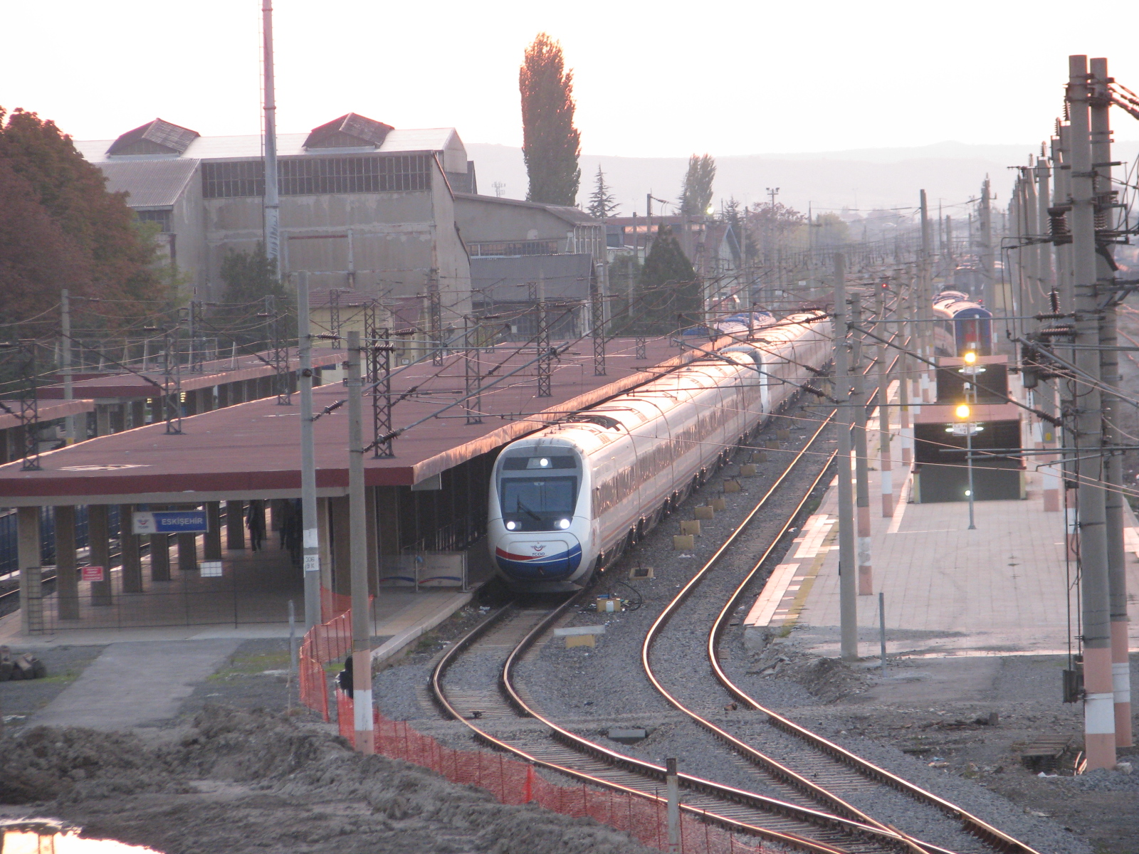 Eskişehir Railways Station